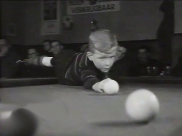 Young Henny de Ruijter demonstration of carom billiards